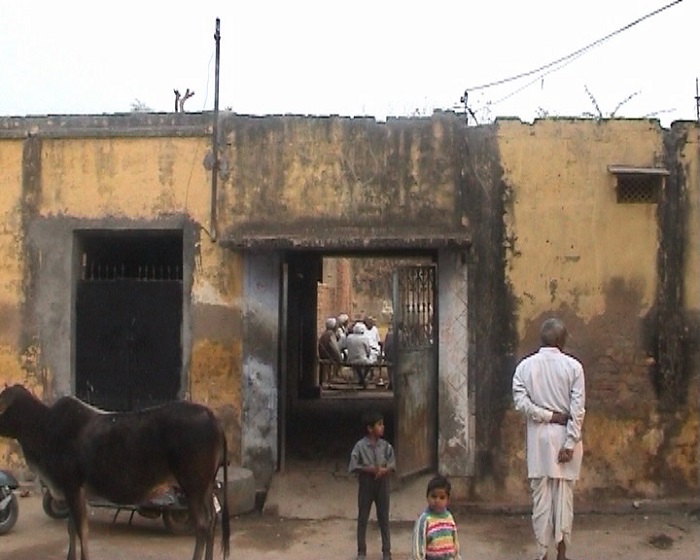 exposition view in Vladivostok